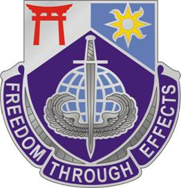 97th Civil Affairs Battalion Distinctive Unit Insignia